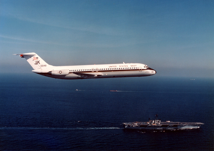 Image of C-9B Skytrain